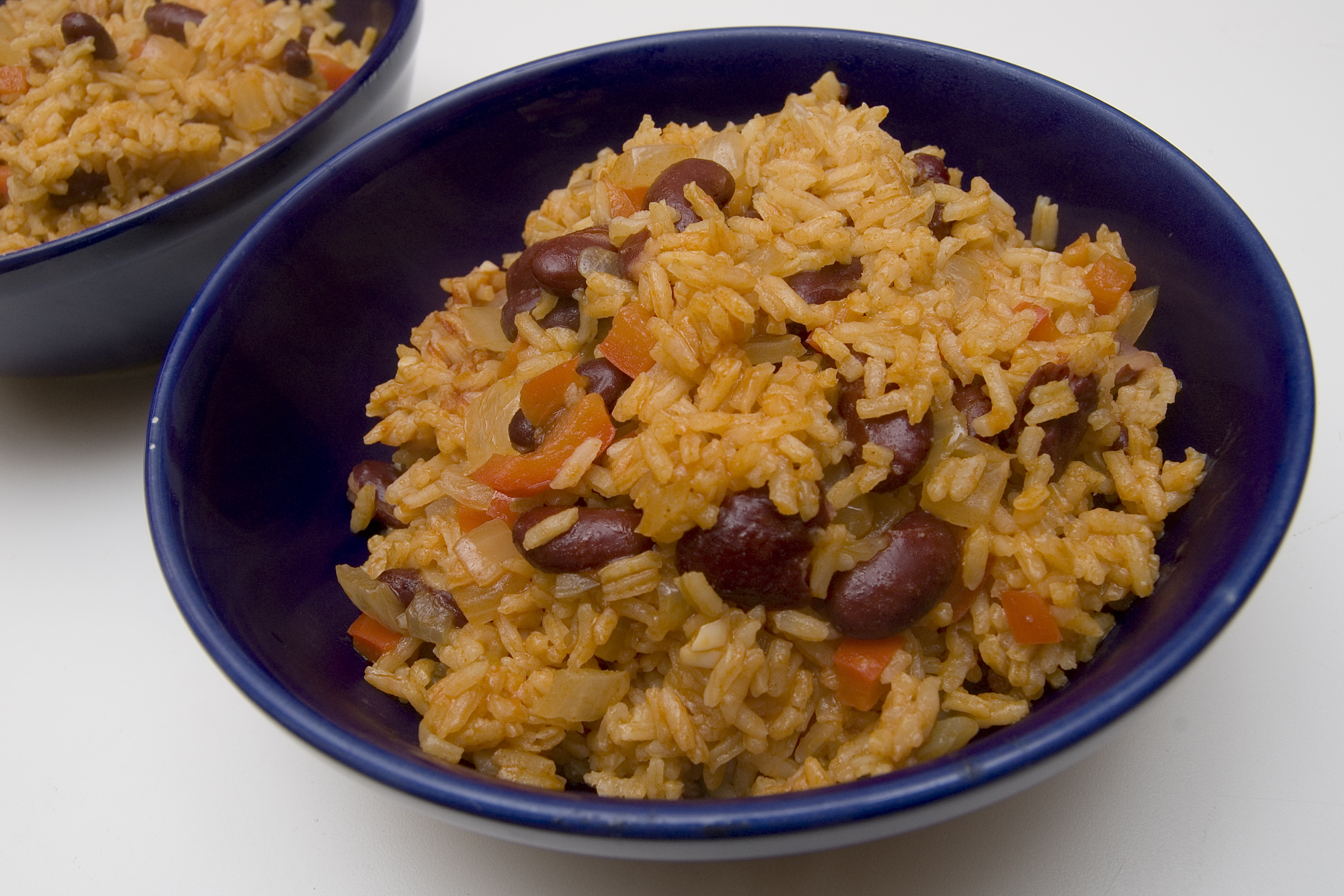 Red beans and rice, prepared with smoked spanish paprika.